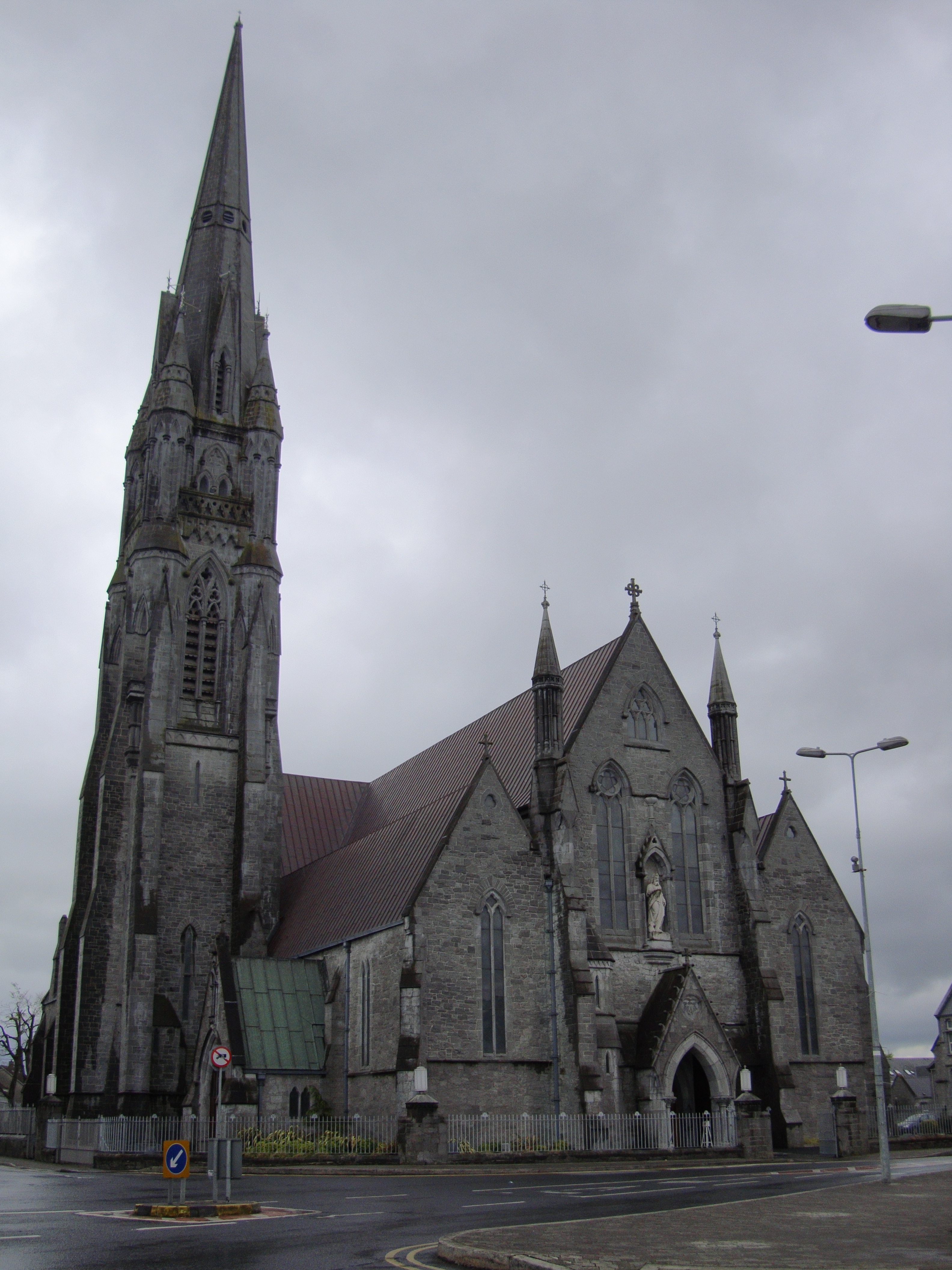 Photograph of St John's Cathedral, Limerick, Ireland